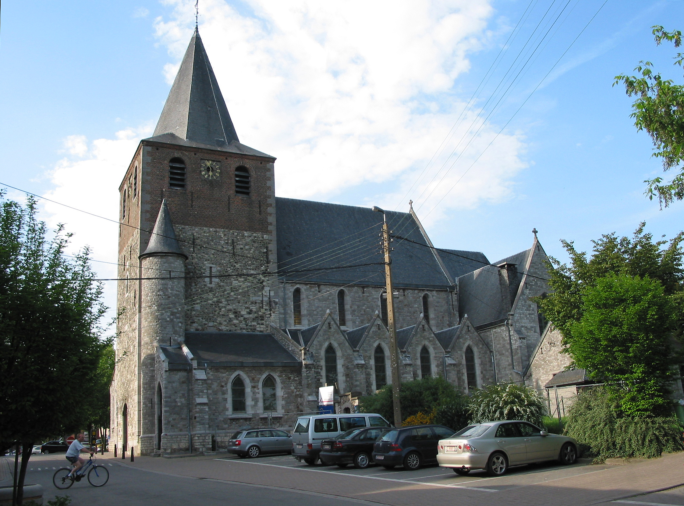 Hannut, the church of Saint Christopher (XV - XVIIIth centuries).